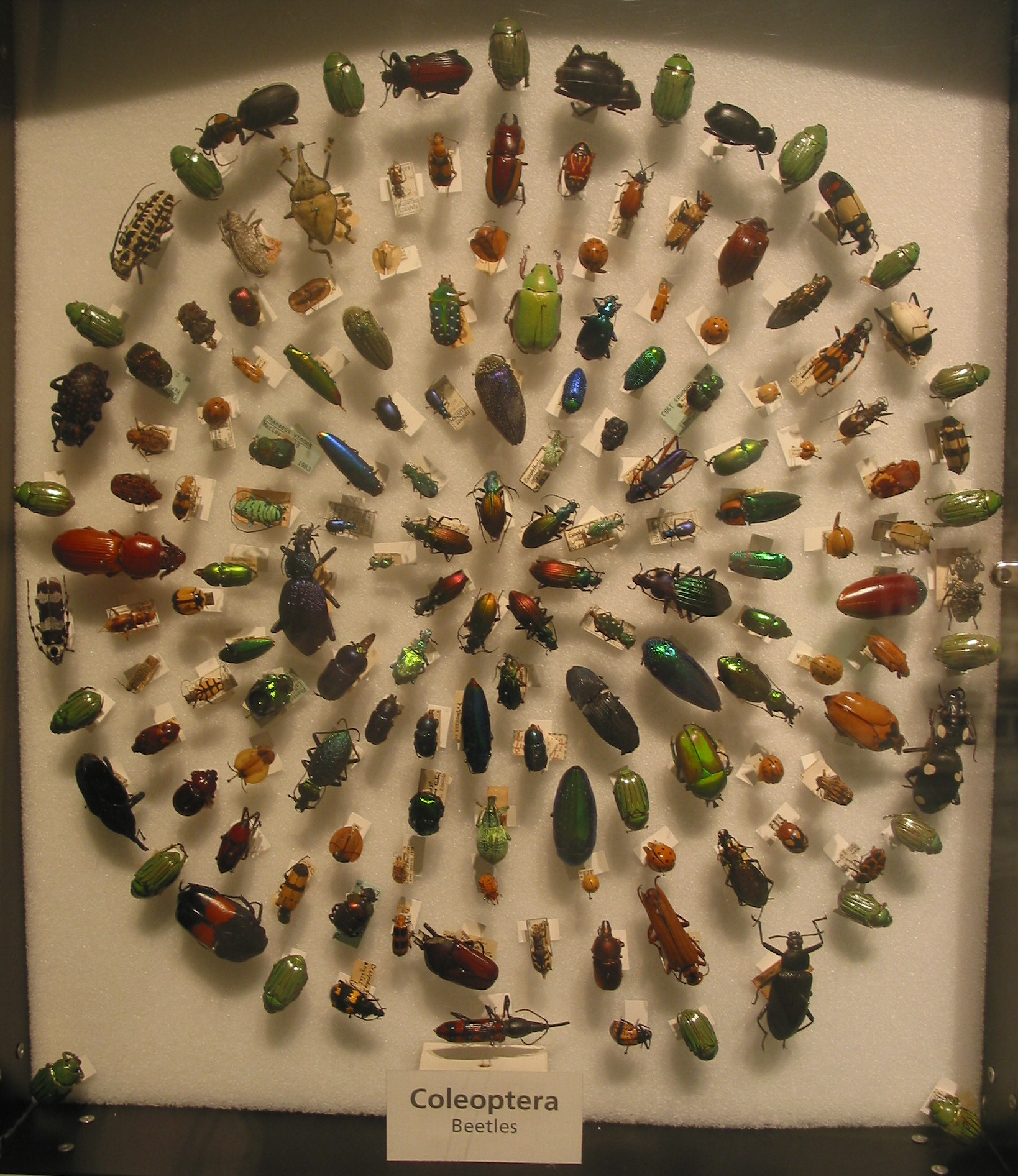 Coleoptera Collection, Harvard Museum of Natural History, Cambridge, Massachusetts, USA